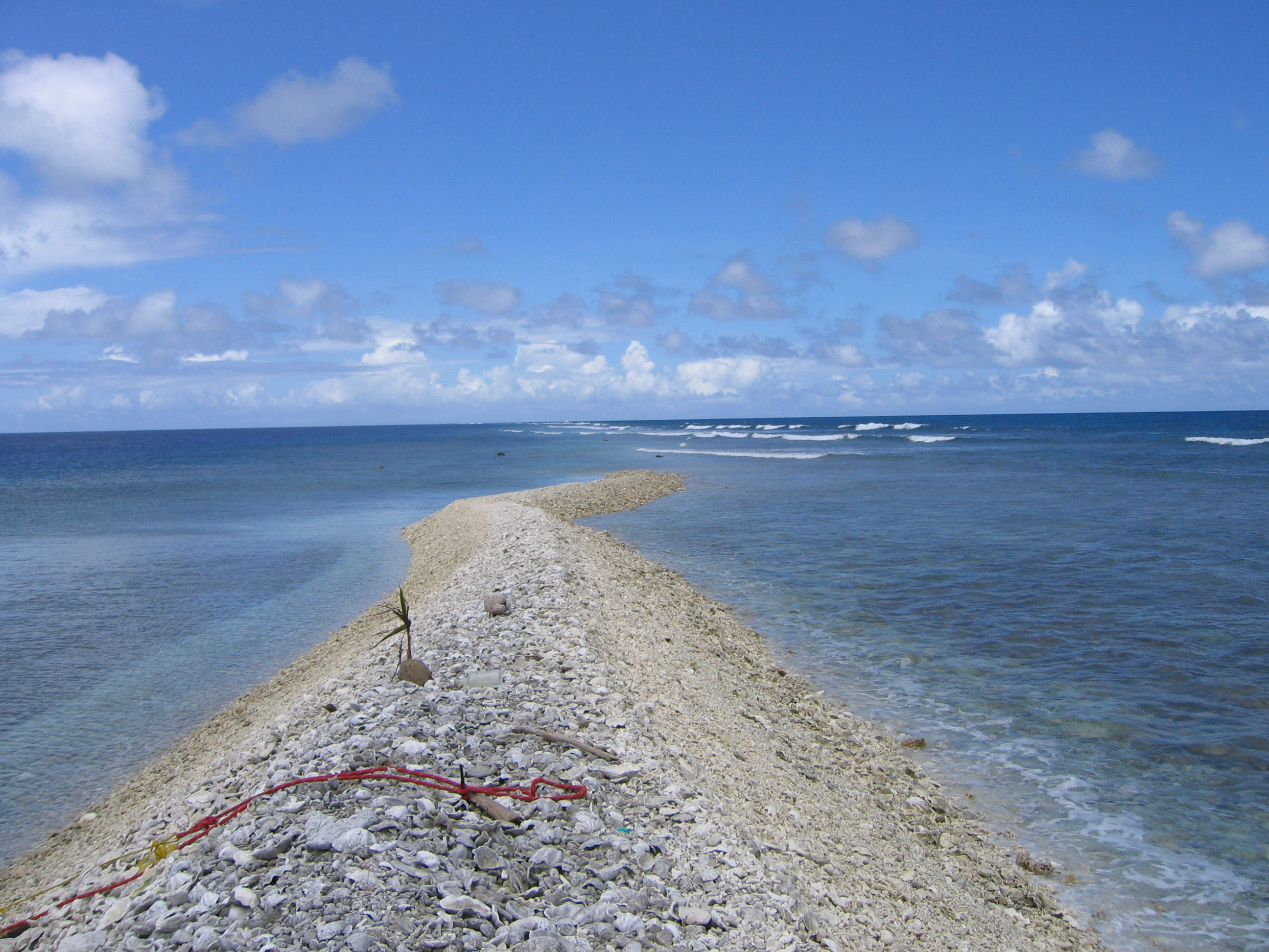 Kingman Reef (Pacific Ocean) - small strip of dry land